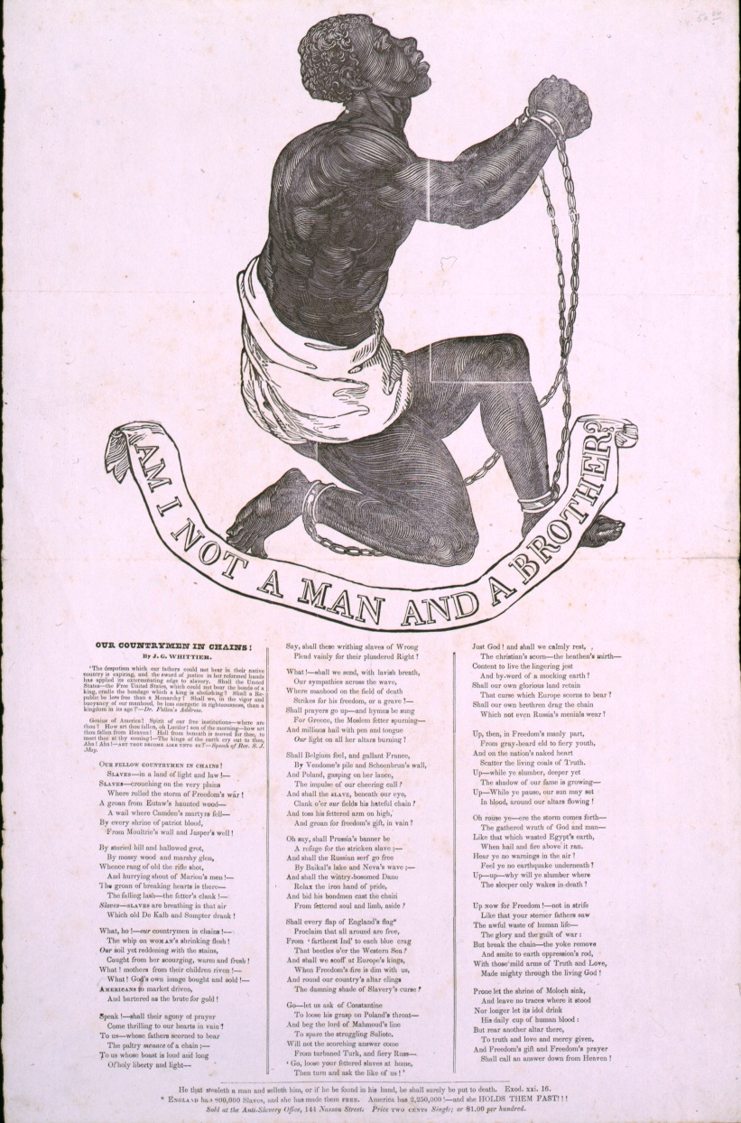 Broadside publication of John Greenleaf Whittier's poem Our Countrymen in Chains. The design was originally adopted as the seal of the Society for the Abolition of Slavery in England in the 1780s, and appeared on several medallions for the society made by Josiah Wedgwood as early as 1787. Here, in addition to Whittier's poem, the appeal to conscience against slavery continues with two further quotes. The first is the scriptural warning, "He that stealeth a man and selleth him, or if he be found in his hand, he shall surely be put to death. "Exod[us] XXI, 16." Next the claim, "England has 800,000 Slaves, and she has made them free. America has 2,250,000! and she holds them fast!!!!" The broadside is advertised at "Price Two Cents Single; or $1.00 per hundred.